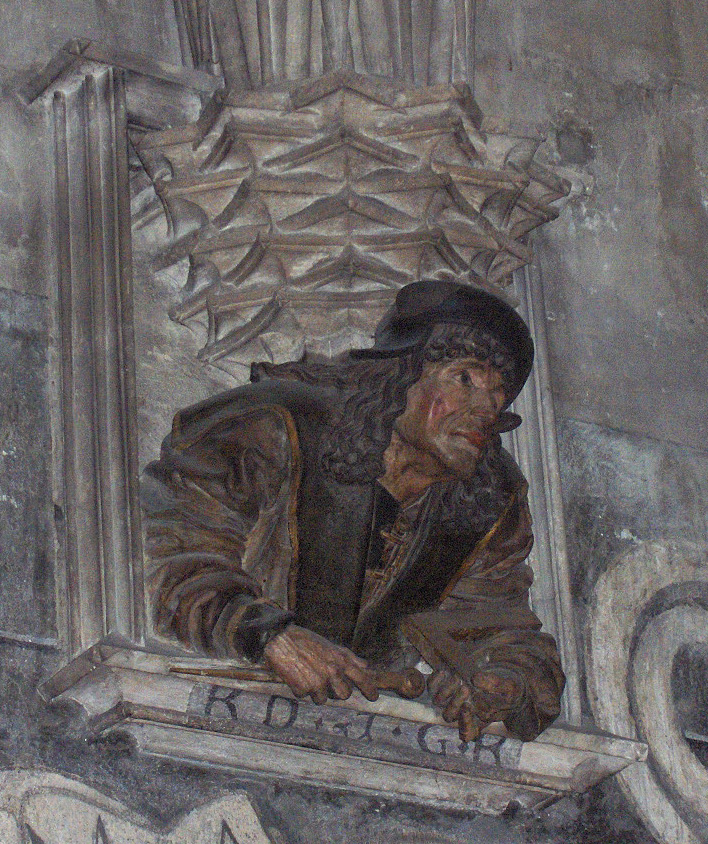 Portrait of Anton Pilgram in the Stephansdom in Vienna, Austria